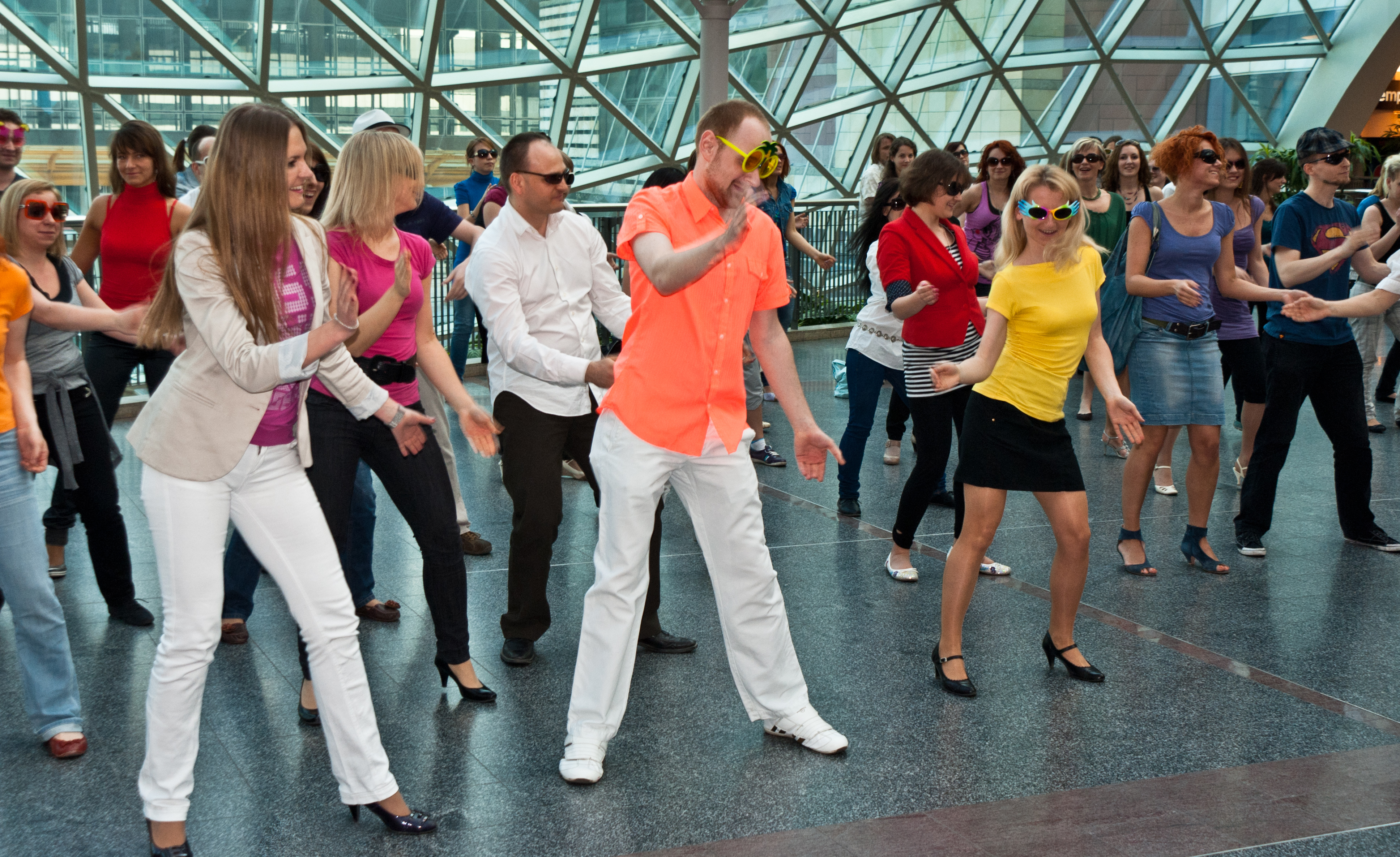 Salsa flash mob at Złote Tarasy (Golden Terraces) shopping mall in Warsaw, Poland. Link do choreografii Link do nagrania flash moba